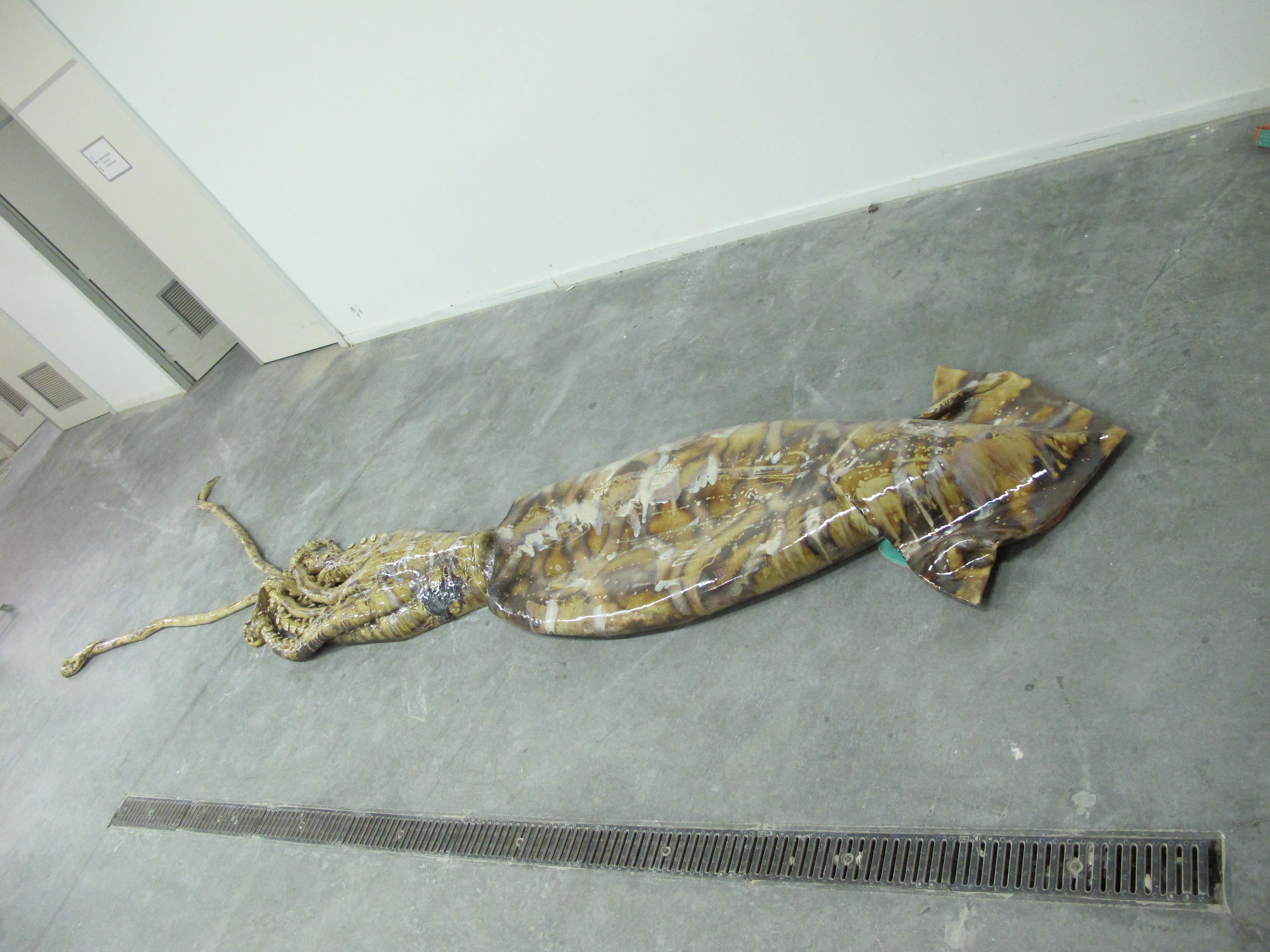 Final Presentation 2012